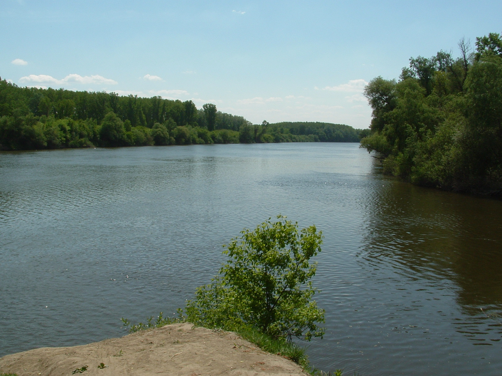 The River Sajó ends in the River Tisza, Hungary, EU